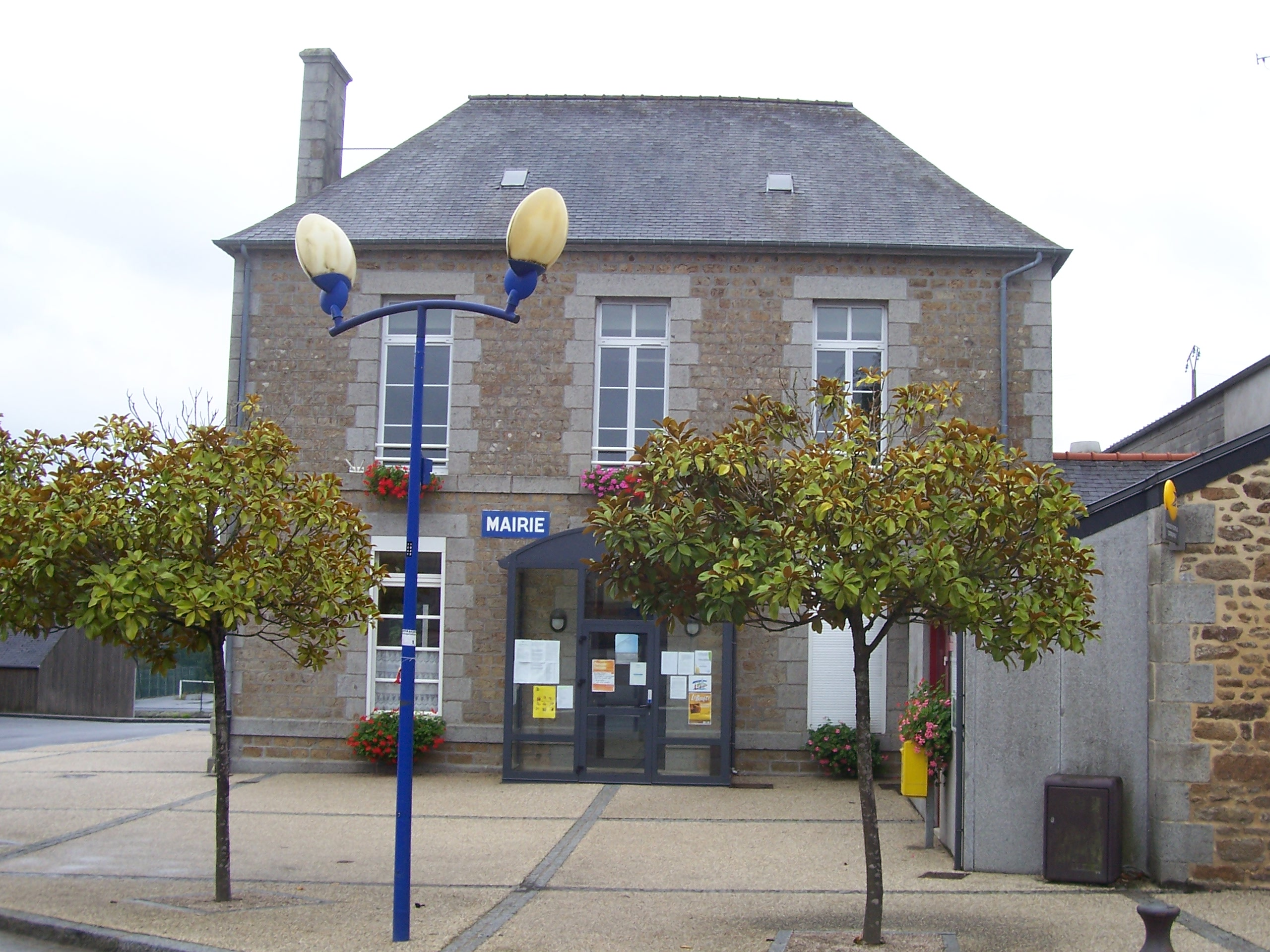 Town hall of Le Loroux.